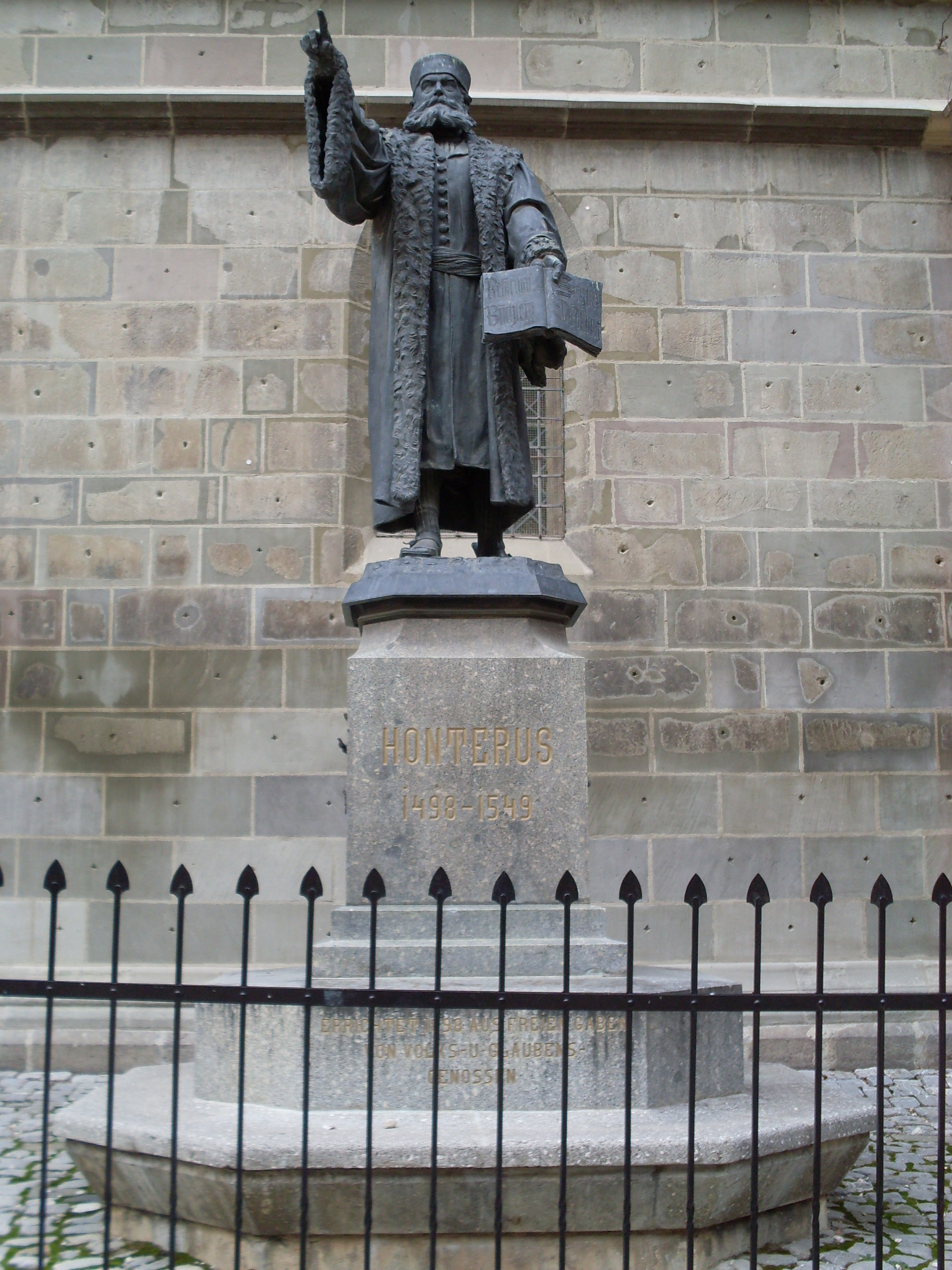 The statue of Honterus near Black Church of Braşov